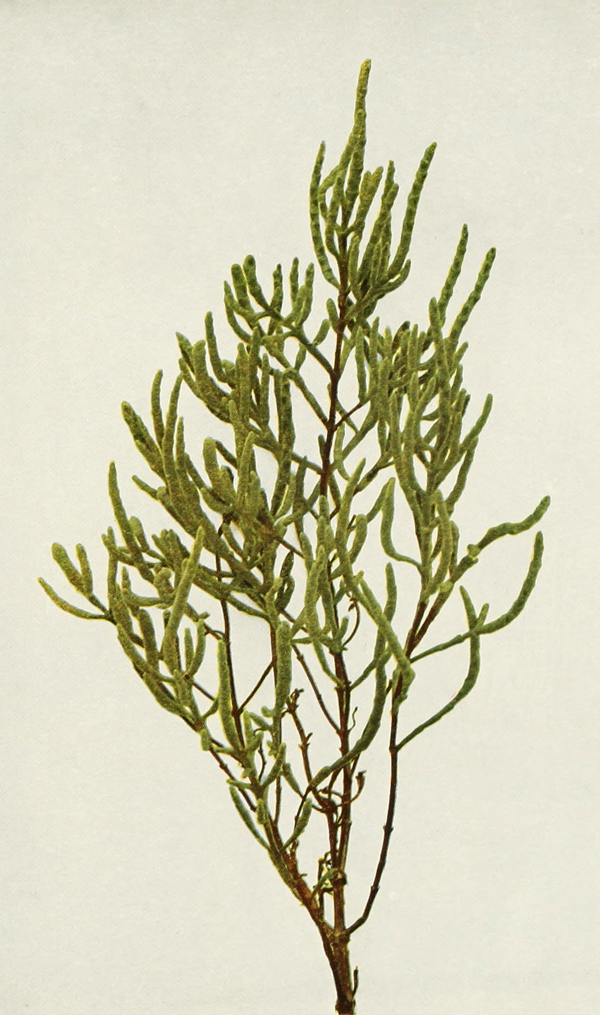 Salicornia depressa Standl.- Glasswort, Virginia glasswort, American glasswort, Low glasswort, Saltwort